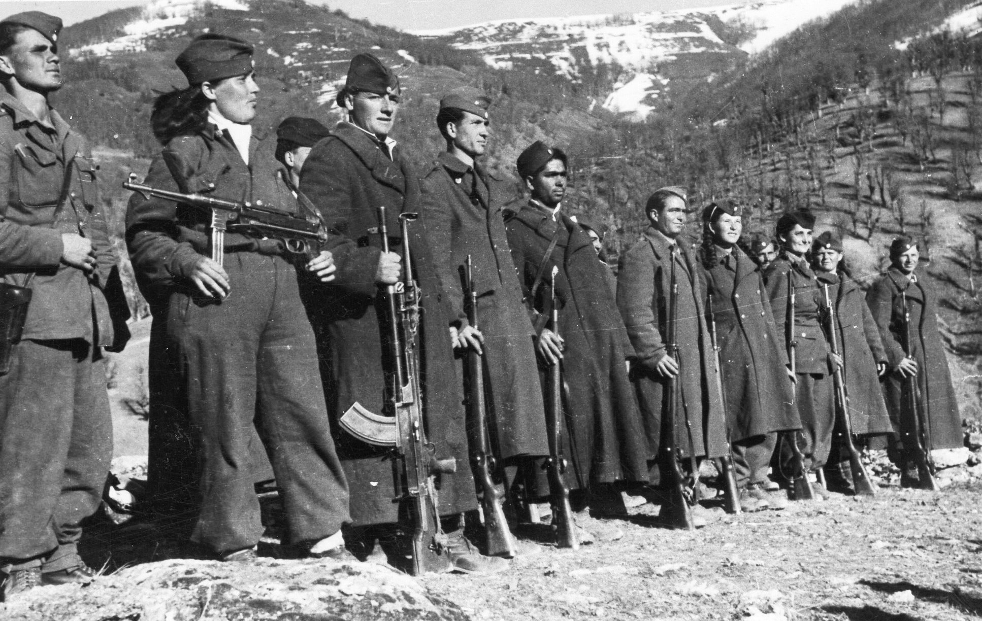 Fighters of Democratic Army of Greece This media file is produced by Wikipedian in Residence in Category:Wikipedian in Residence at DARM in 2016.